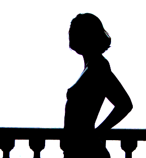 Silhouette of a woman with transparent background